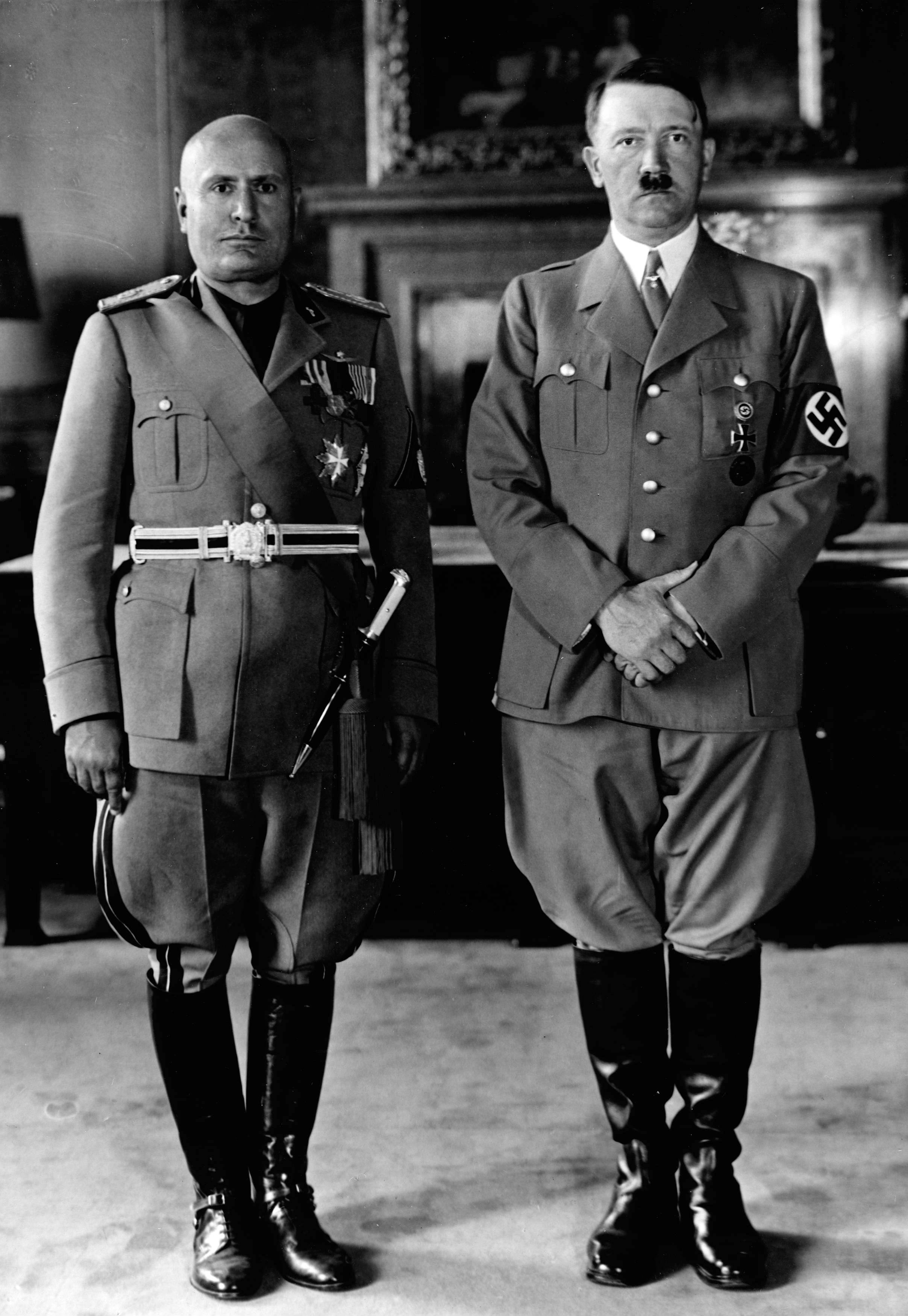 Benito Mussolini and Adolf Hitler during Mussolini's visit in Munich.